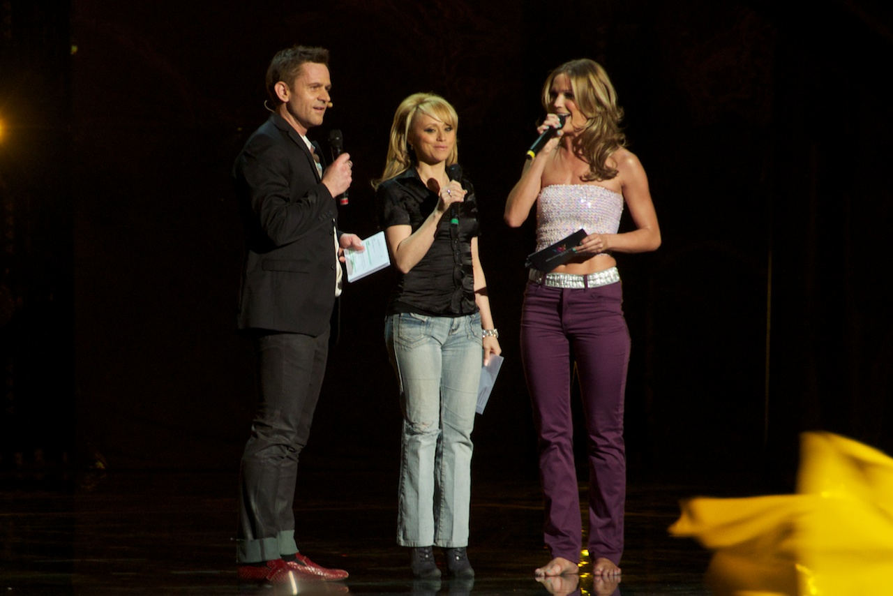 Rickard Olsson, Nanne Grönvall and Marie Serneholt during the broadcast of the 1st semi-final for Melodifestivalen 2011.